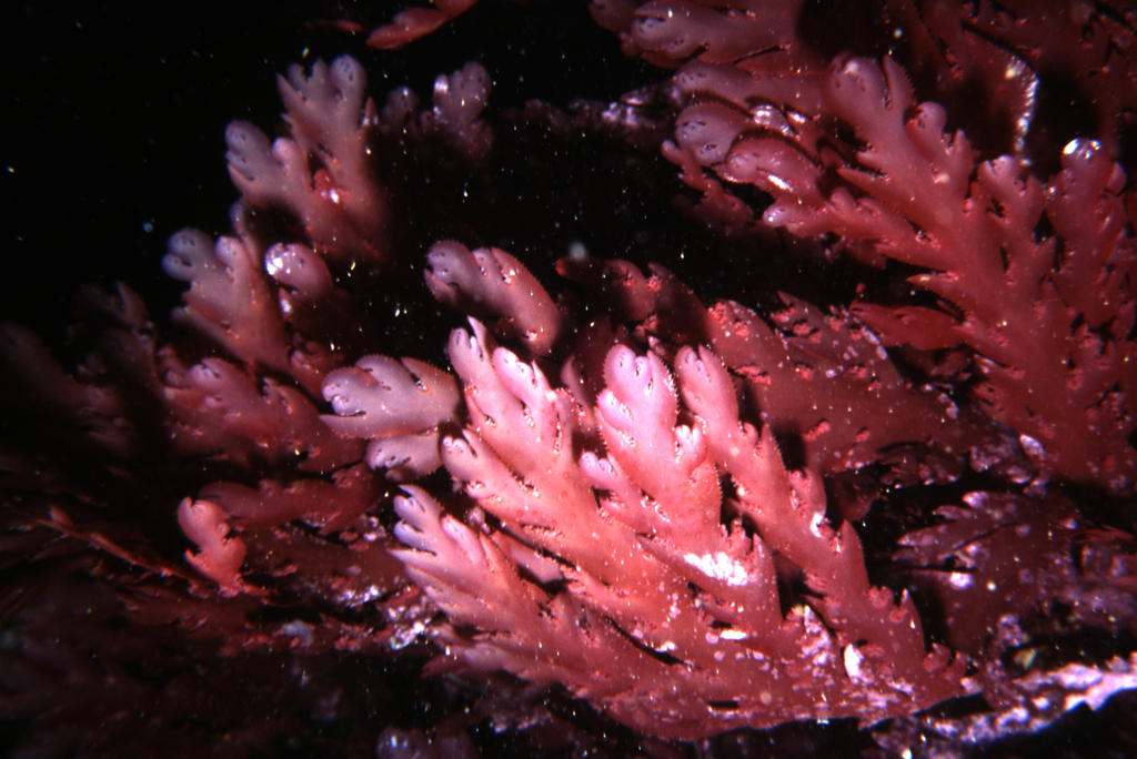 Plocamium corallorhiza in South Africa